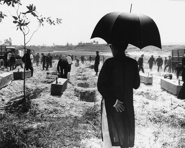 Interment for 300 unidentified victims of communist occupation of Hue in 1968.